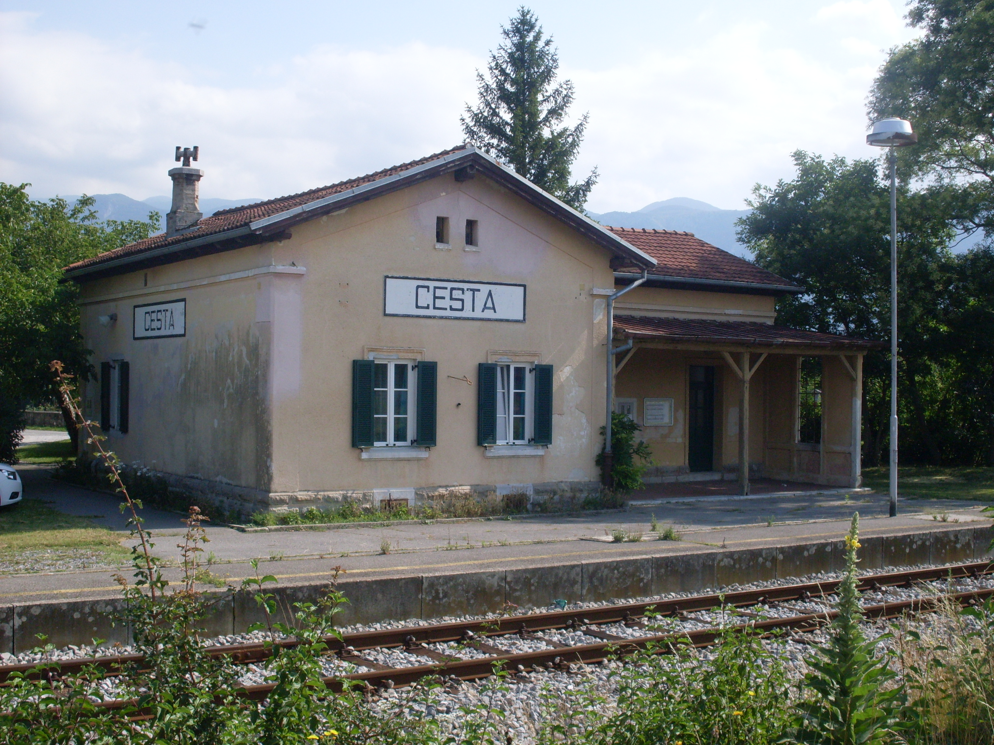 Railway halt Cesta (formerly named Vipavski Križ)